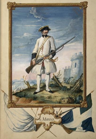 Drawing from the "King's troops, infantry French and foreign, 1757, Volume 1." Army Museum.